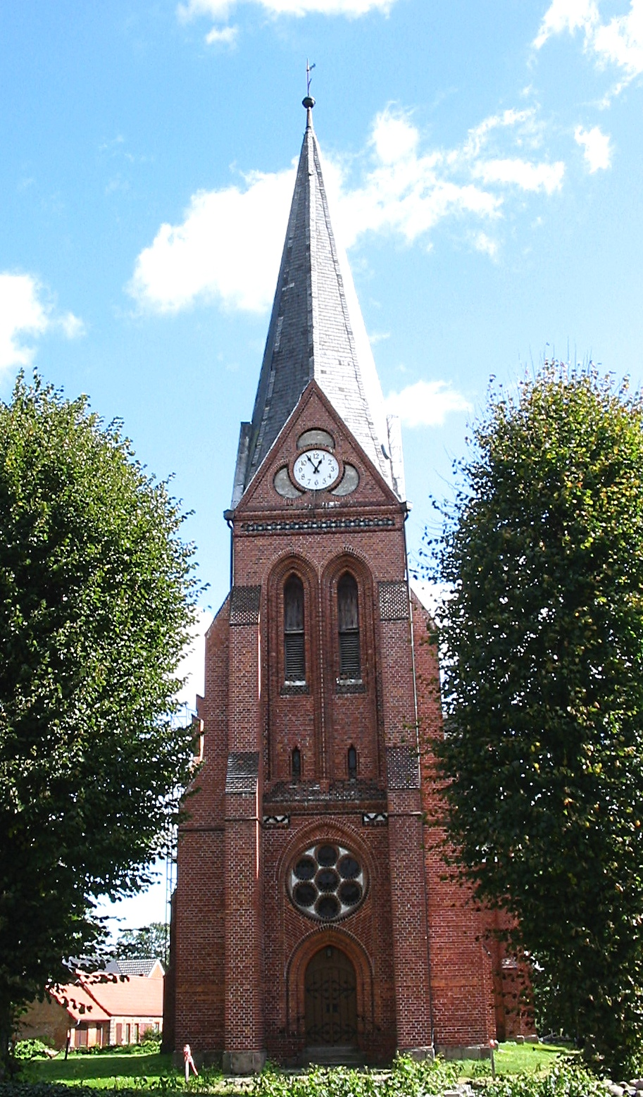 Church in Muchow, district Ludwigslust-Parchim, Mecklenburg-Vorpommern, Germany